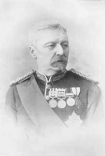 Portrait of General Sir Robert Cunliffe Low